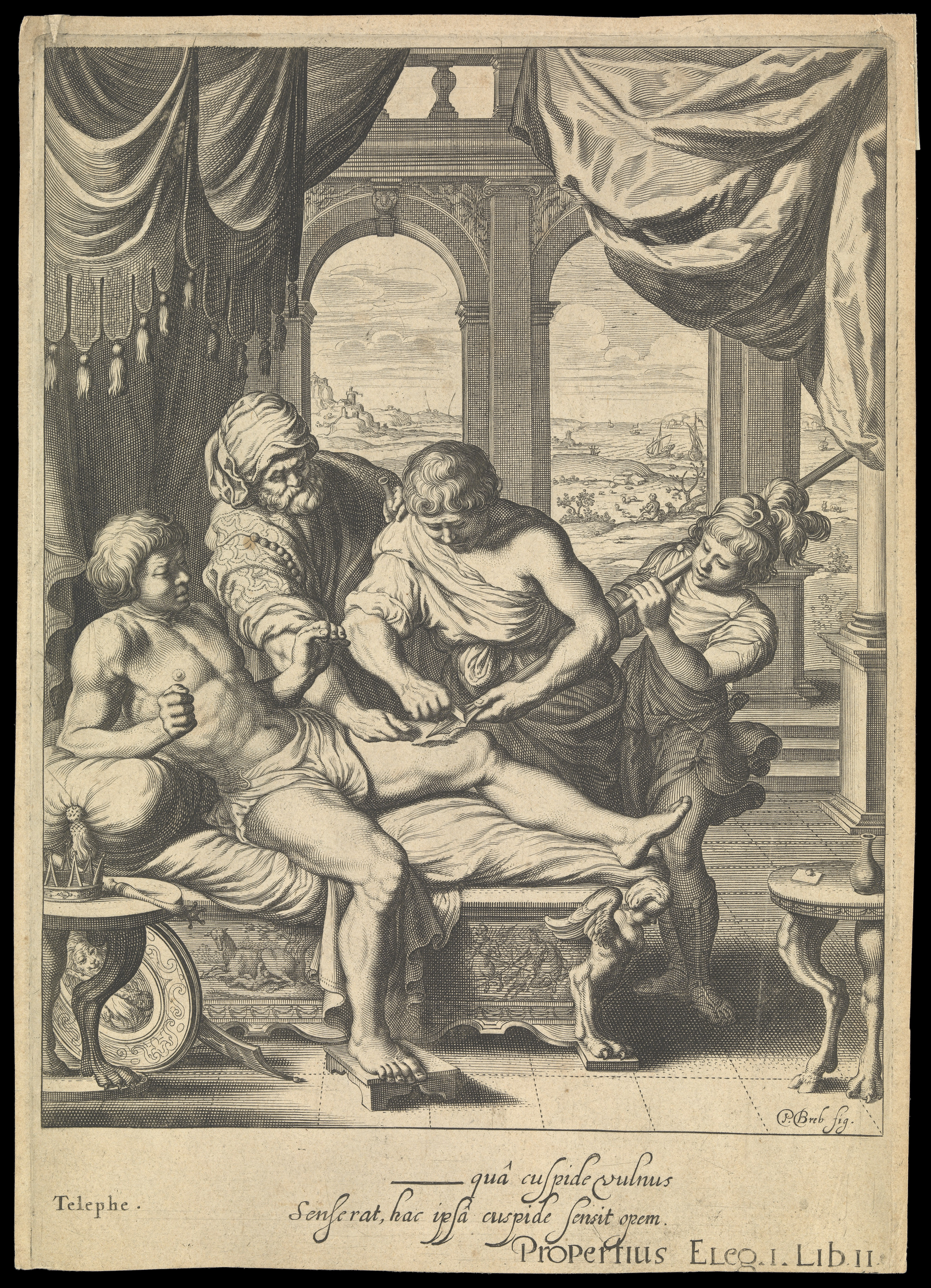 Telephus (son of Hercules) cured of a potentially fatal wound with some rust from Achilles' spear, with which he had originally been wounded. Iconographic Collections Keywords: Pierre Brebiette